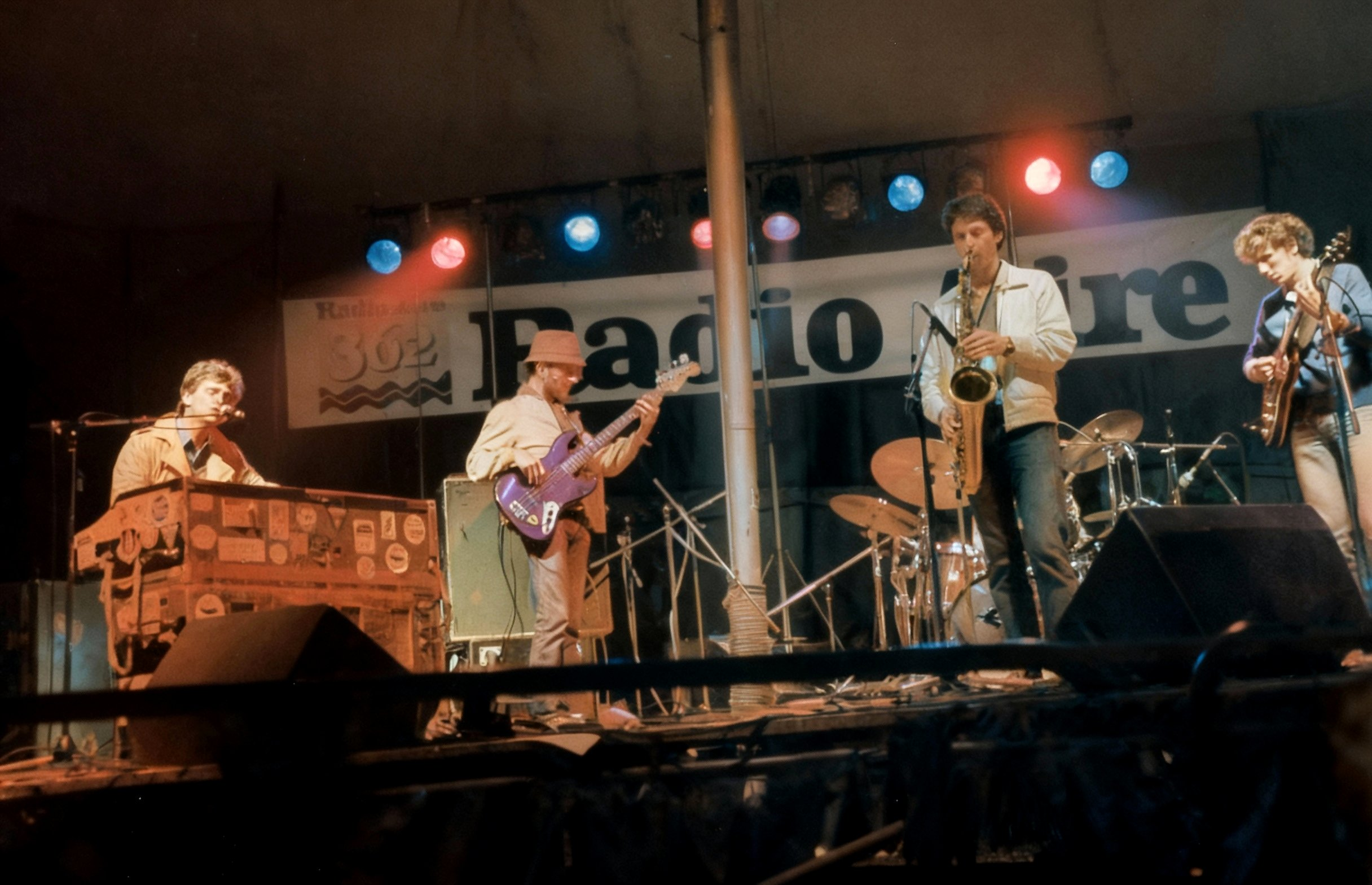 Georgie Fame and the Blue Flames on stage at the 1983 Leeds Festival (Tony Rees photograph)